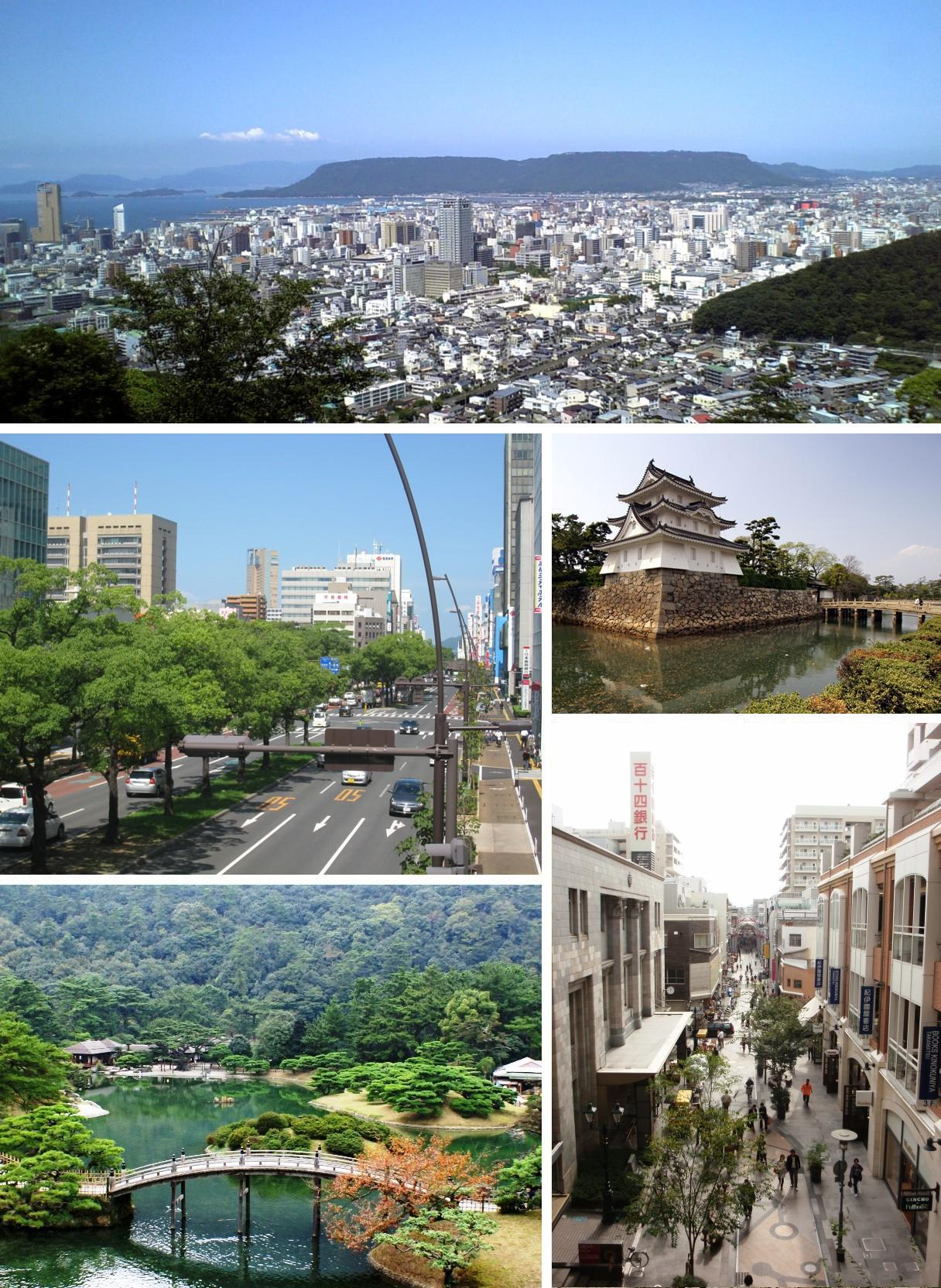 From top left: Central Takamatsu, Chūō dōri street, Takamatsu Castle, Marugame-machi shopping mall, Ritsurin Garden